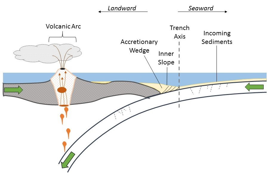 Schematic cross section of a subduction zone with an accretionary prism